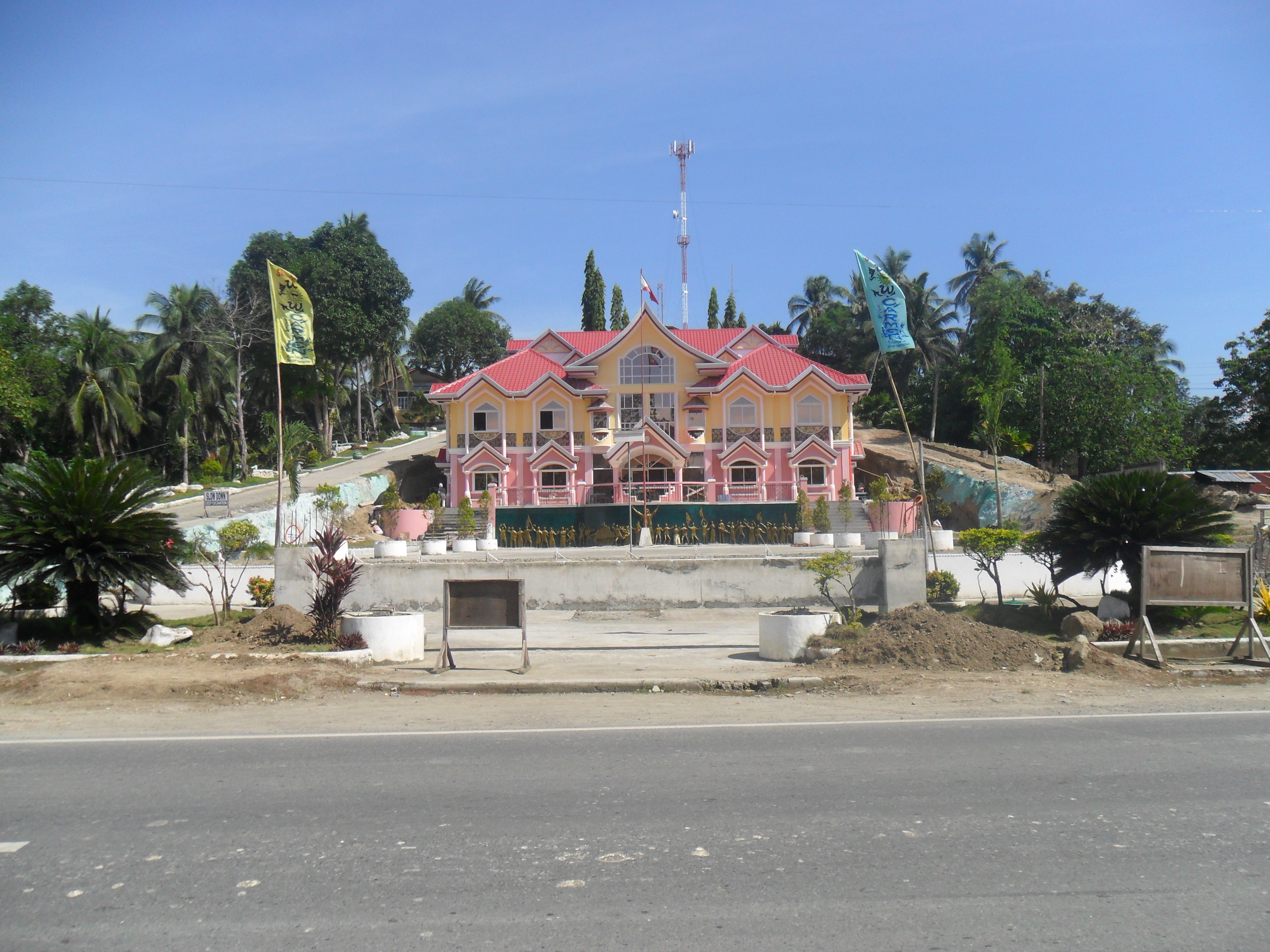 the new municipal hall of carmen